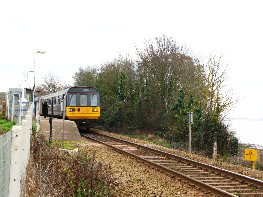 First Great Western DMU 142001 picks up a solitary passenger at Lympstone Commando station in Devon, England. It is operating an Avocet Line train from Exmouth towards Exeter.